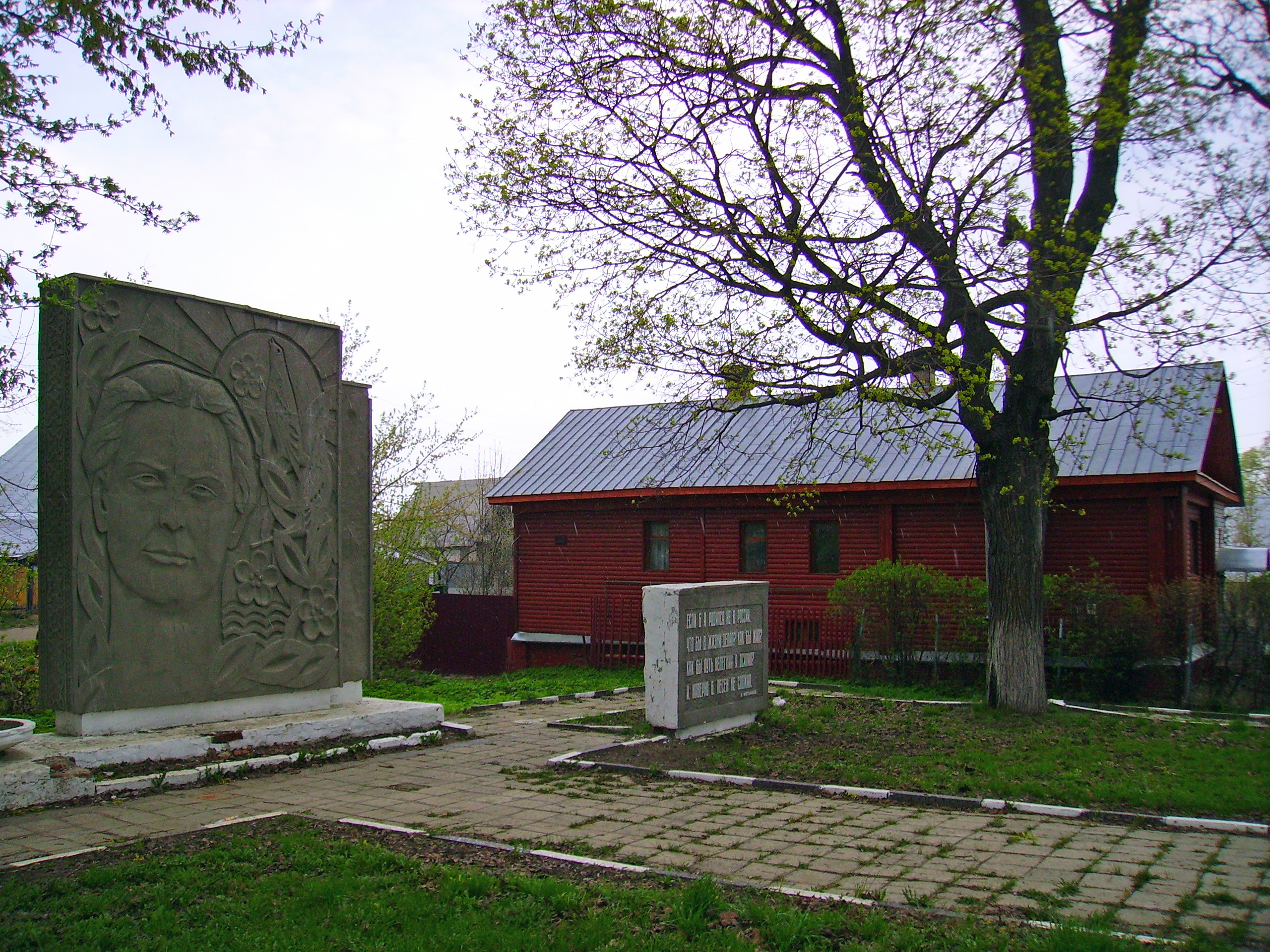 Monument to Alexey Fatyanov, The Composer